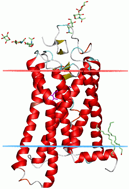 Protein image from OPM database